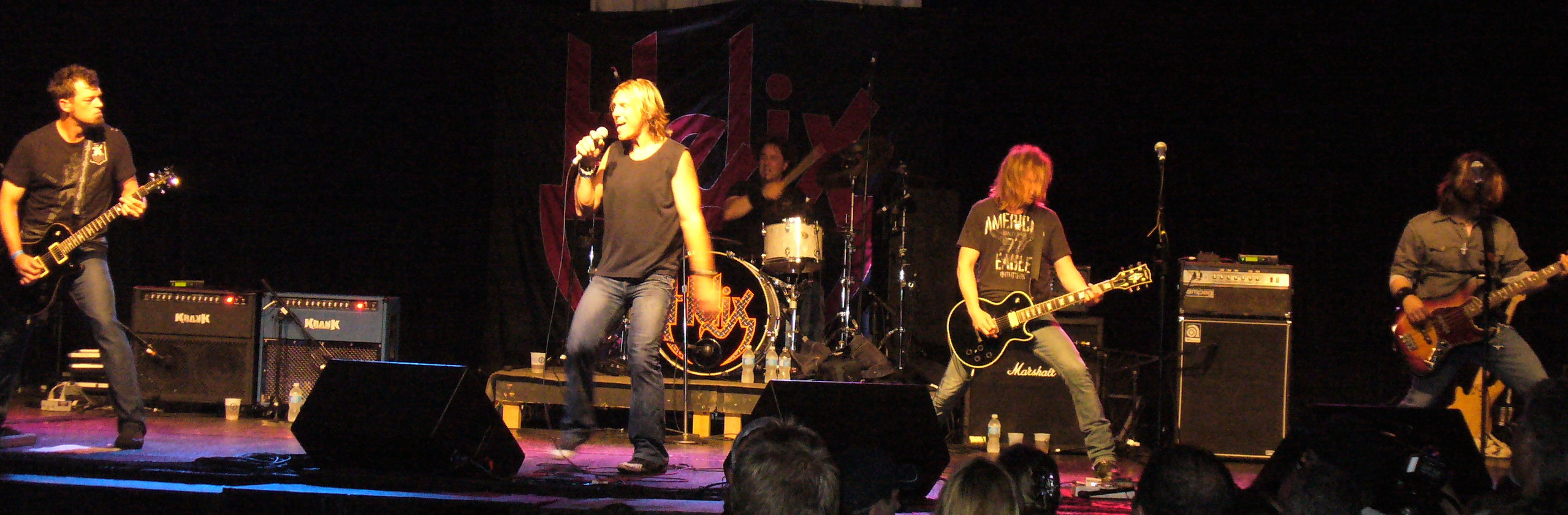 Canadian hard rock band Helix in concert at the Friendship Festival in Fort Erie. From left to right, Rick VanDyk, Brian Vollmer, Brent Niemi, Jim Lawson, Paul Fonseca